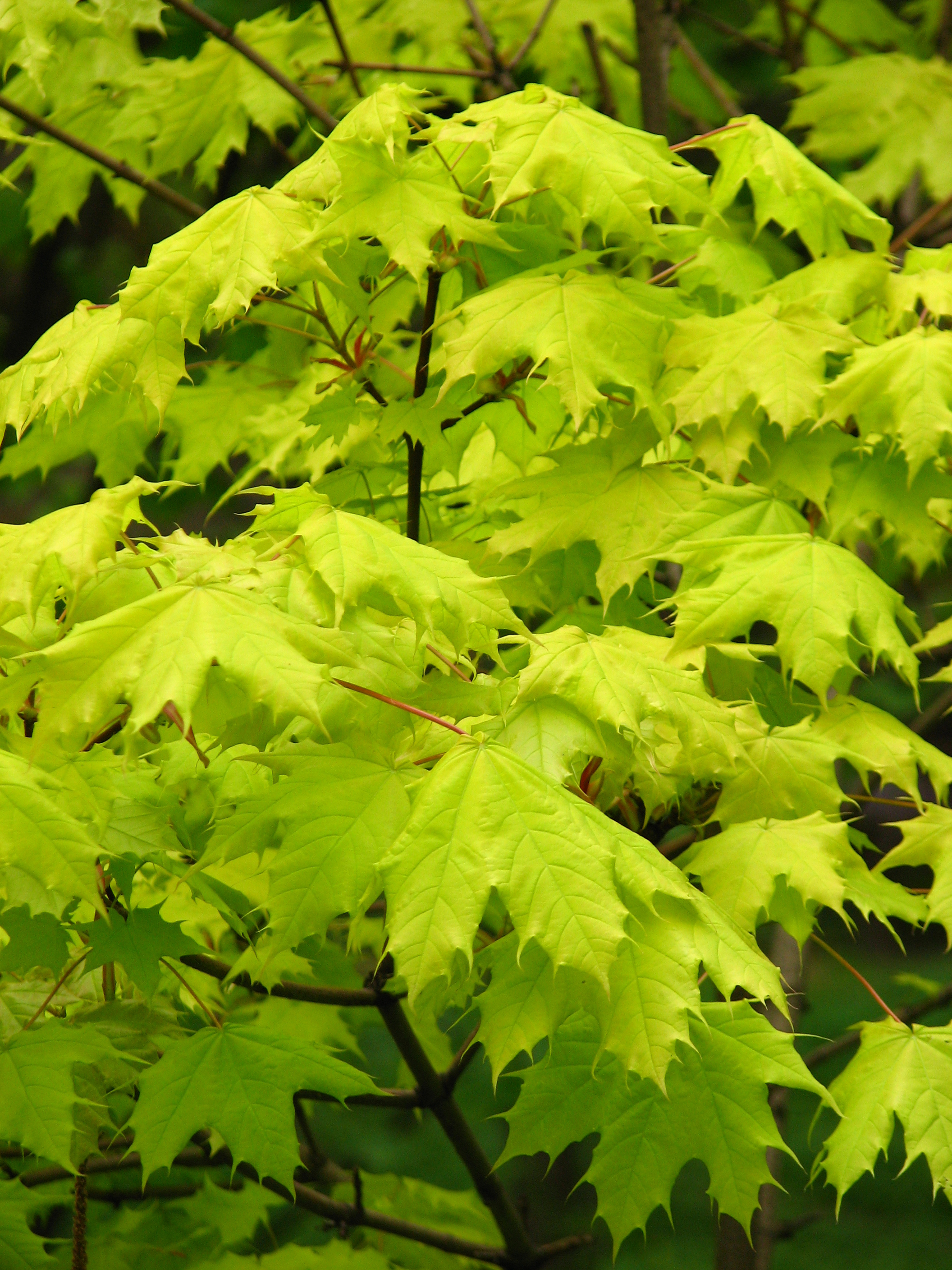 Acer platanoides cv. 'Golden Globe' in the Botanical Garden of Moscow State University "Aptekarsky Ogorod".